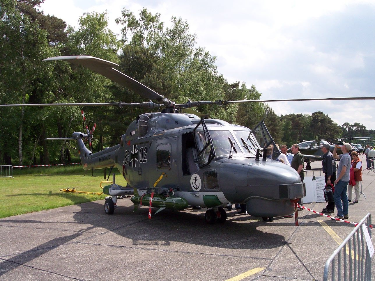 Westland Lynx Mk.88A (serial no. 83+02) of the Bundesmarine 2005